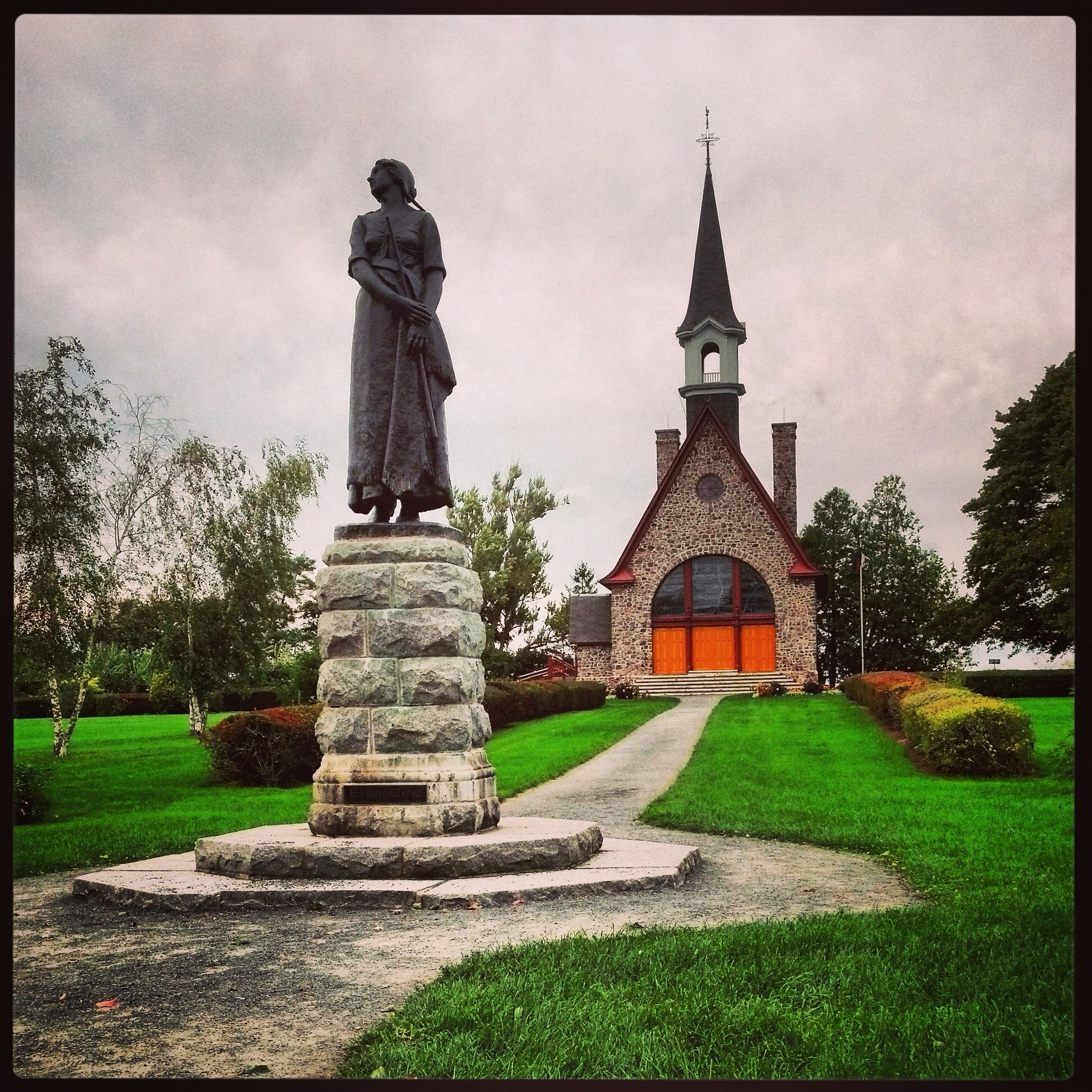 Evangeline is the heroine of Henry Wadsworth Lonfellow's famous poem, which described her life during the expulsion of the Acadian people.